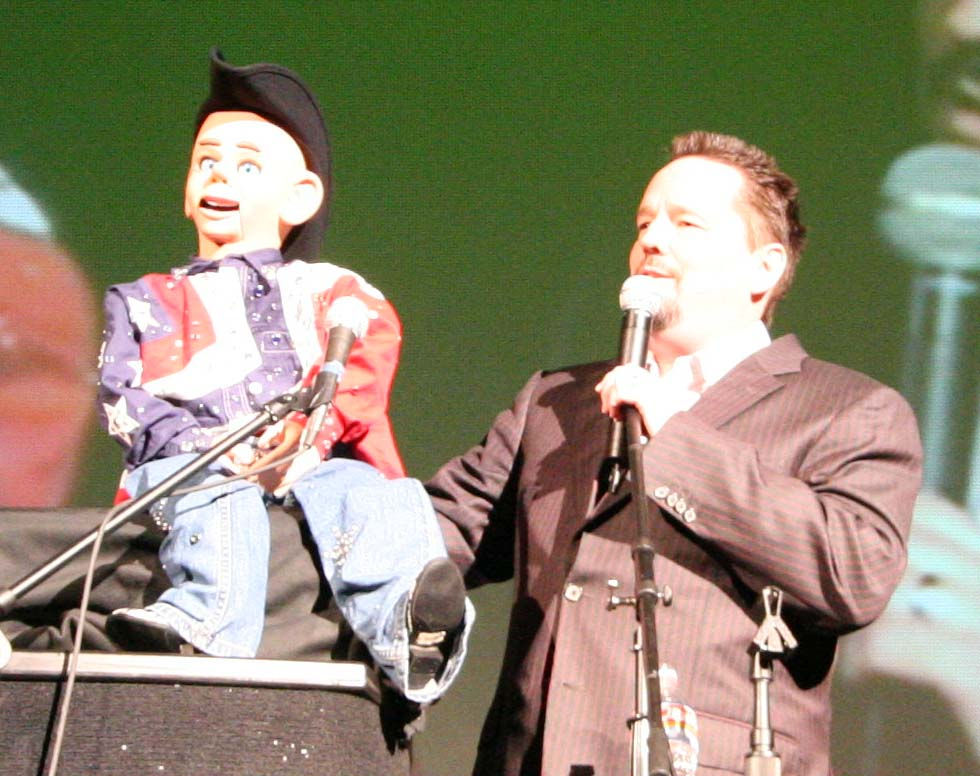 Terry Fator appears at the "Ponca Theater" in Ponca City, Oklahoma on May 6, 2008.